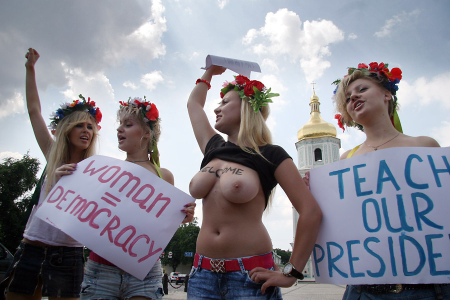 Activists of Ukrainian women's movement FEMEN shout "Hillary, help us!" and "Strong women - strong country" during their top-less protest at the Hayat hotel, the US State Secretary Hillary Clinton's residence in Kiev, on July 2, 2010.